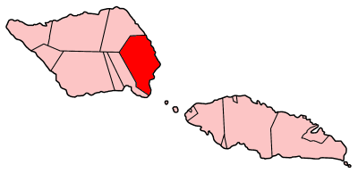 Map of Samoa showing Fa'asaleleaga district. Made by User:Golbez.